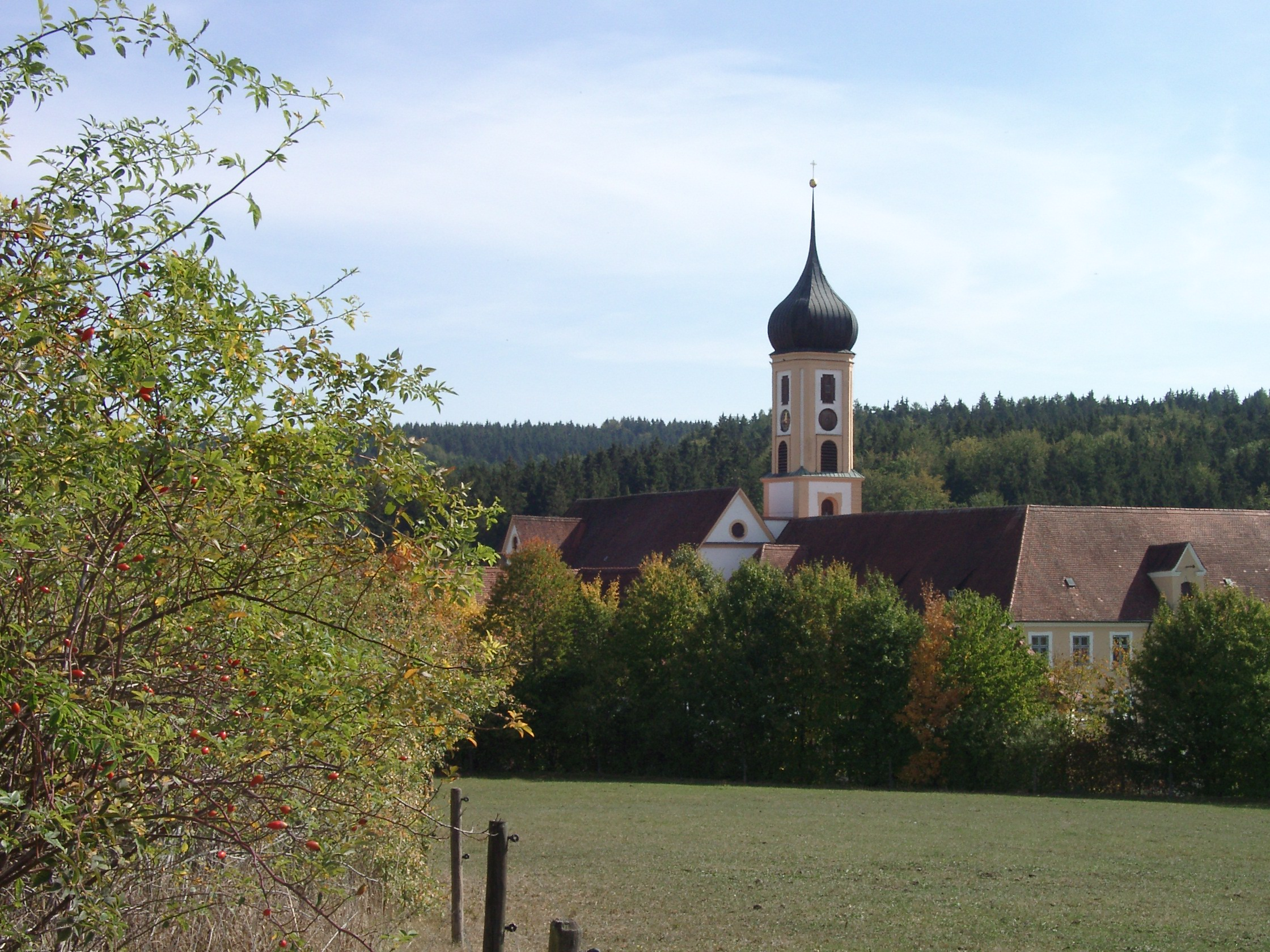 The Cistercian nunnery of Oberschönenfeld